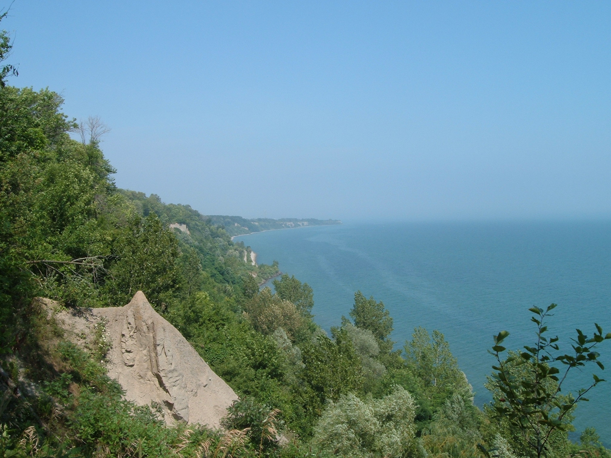 Scarbourough bluffs, just behind Guildwood Park, a little-known graveyard of lost buildings. For